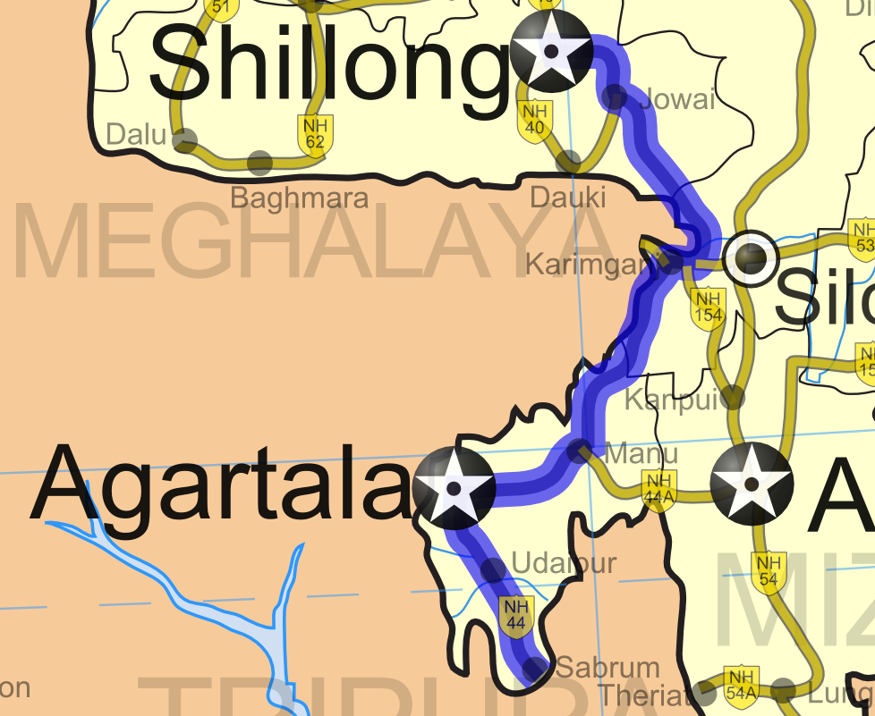 National Highway 44 in India